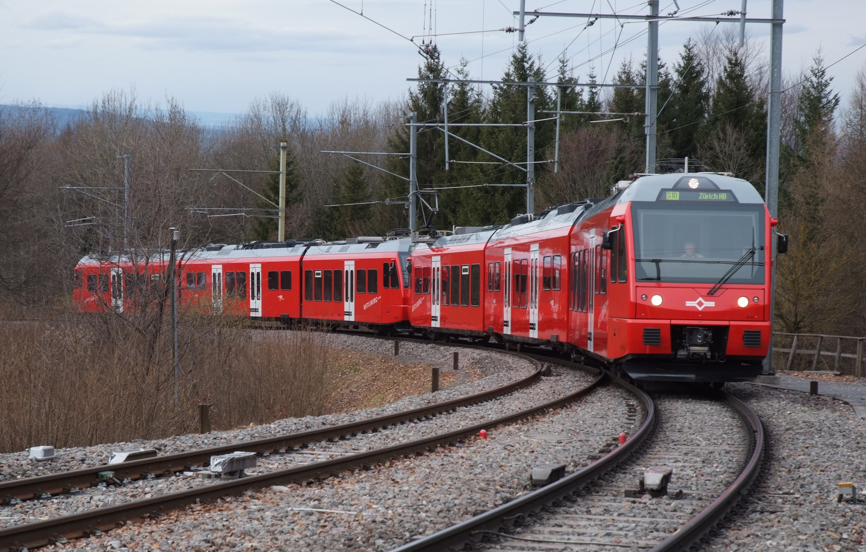 SZU Be 510 Nr 556 513 and 556 515 approaching Uetliberg hill station in Switzerland